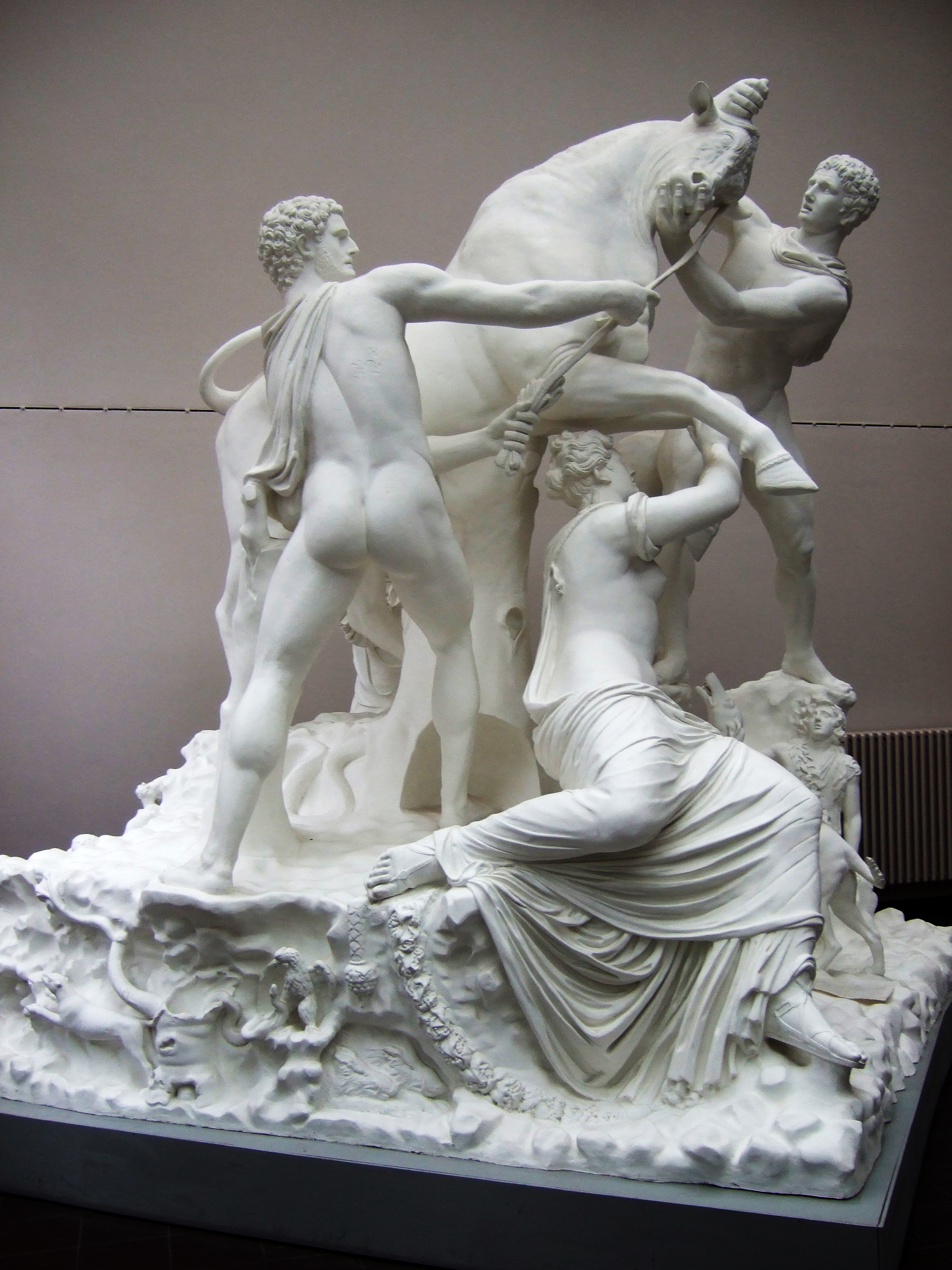 Farnese Bull. Plaster cast at the Abguss-Sammlung Antiker Plastik der Freien Universität Berlin.